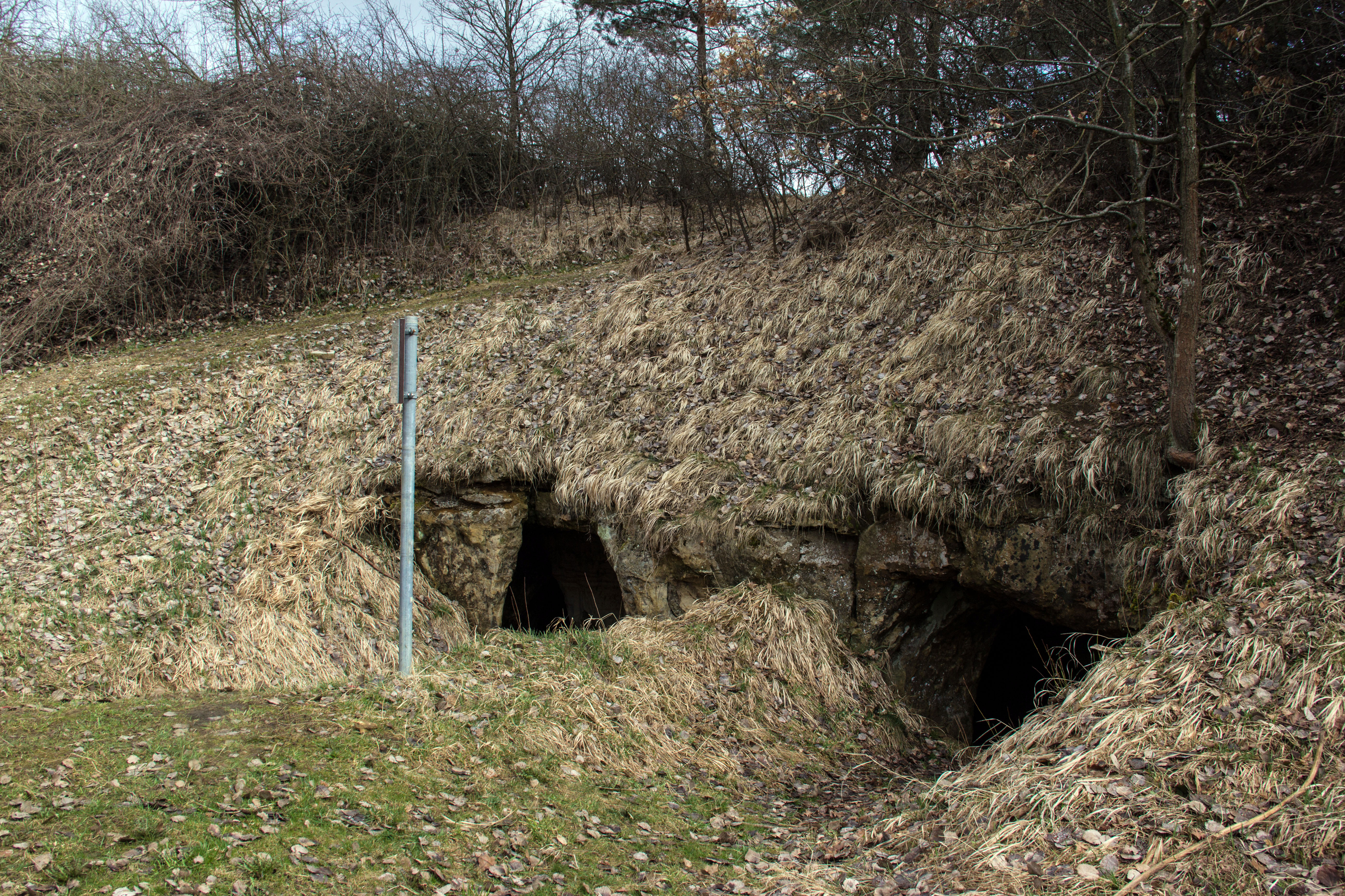 Bucher Höhlen